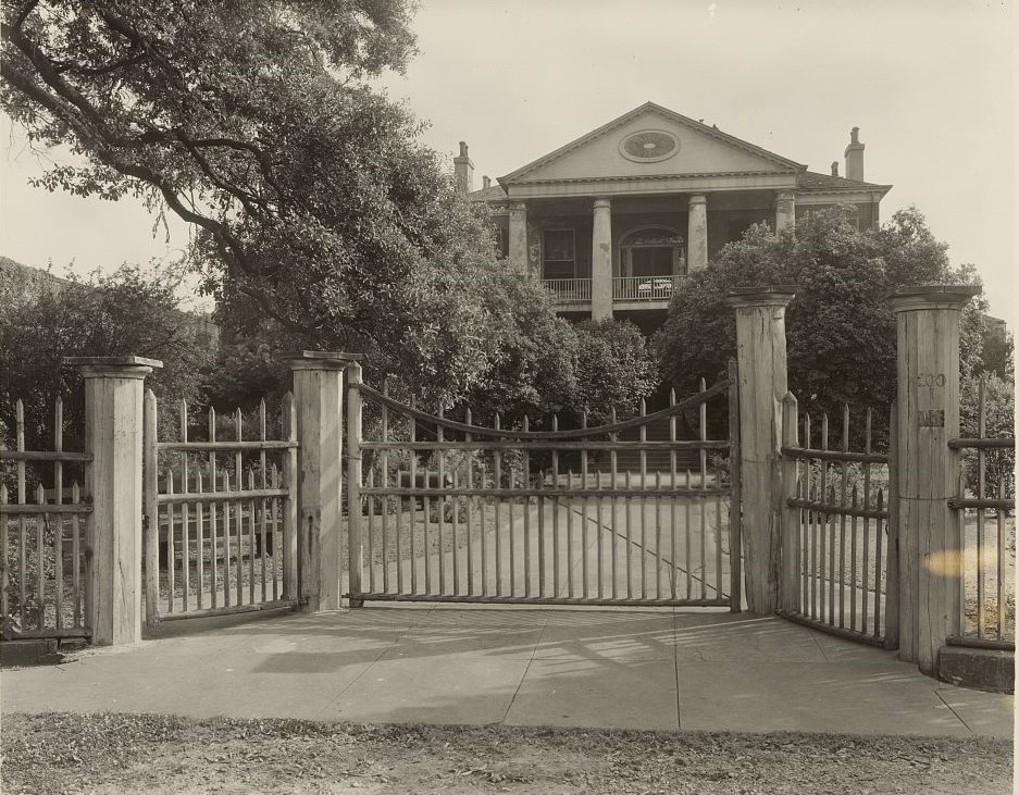 Title Rosalie, Natchez, Adams County, Mississippi Contributor Names Johnston, Frances Benjamin, 1864-1952, photographer Created / Published 1938. Subject Headings - United States--Mississippi--Adams County--Natchez - Bull's eye windows. - Pediments. - Balconies. - Gates. - Houses. - Mississippi--Adams County--Natchez Format Headings Photographic prints. Notes - Title from photographer's inventory. - Built by Peter Little of homemade brick and material collected over a period of seven years. Used as headquarters by Gen. Grant during occupation of Natchez. - Building/structure dates: 1820. - Corresponding Carnegie Survey of the Architecture of the South neg. no. 1070. Library has no record of having this neg. - Related names: Miss Rebecca Rumble, Mrs. James Marsh. - Forms part of: Carnegie Survey of the Architecture of the South (Library of Congress). Medium 1 photographic print. Call Number/Physical Location LOT 12634 [item] [P&P] Repository Library of Congress Prints and Photographs Division Washington, D.C. 20540 USA Digital Id ppmsca 23949 //hdl.loc.gov/loc.pnp/ppmsca.23949 Control Number csas200907163 Reproduction Number LC-DIG-ppmsca-23949 (digital file from print) Rights Advisory No known restrictions on publication. Online Format image Description 1 photographic print.